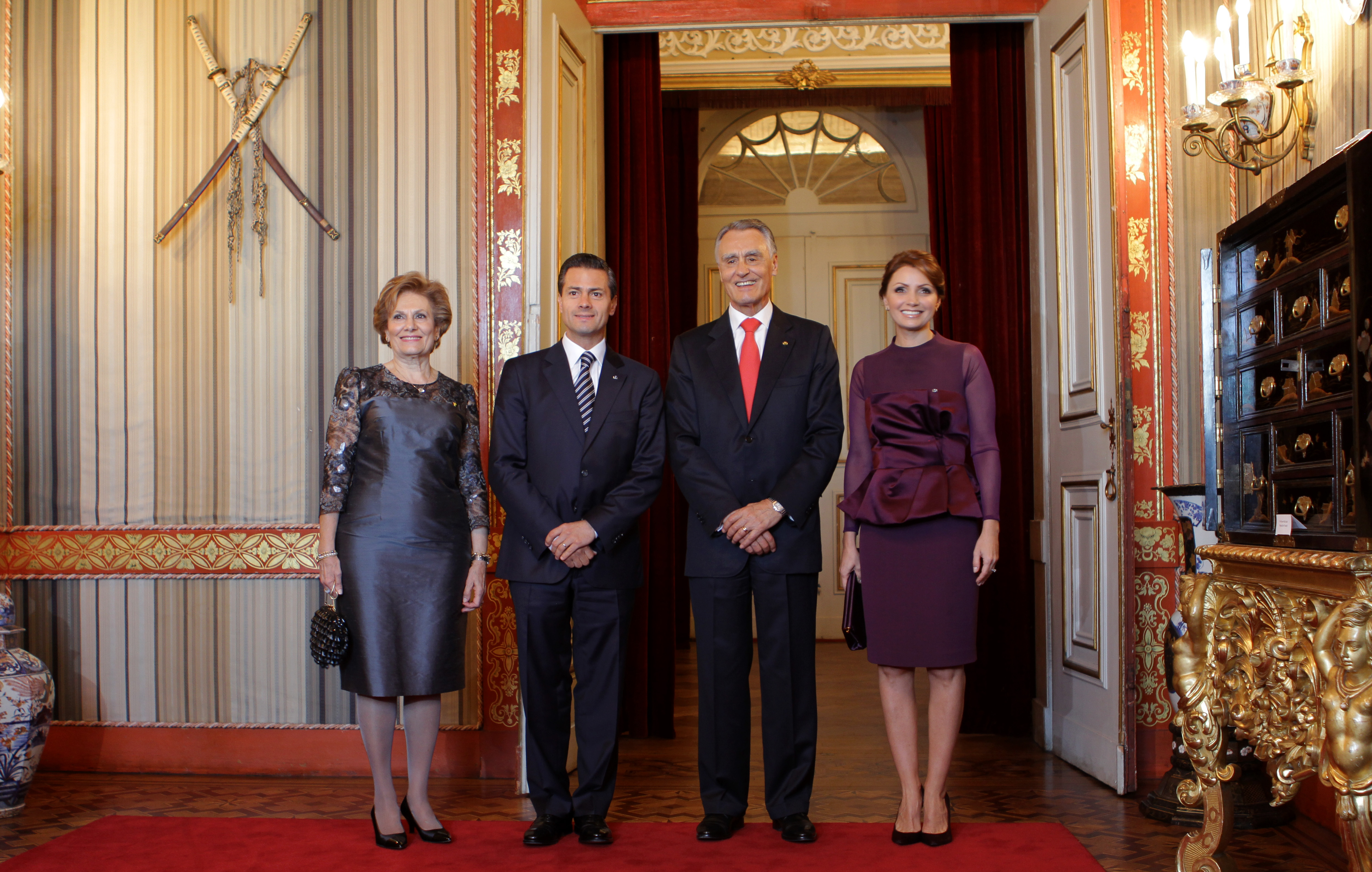 State Visit of President Enrique Peña Nieto (Mexico) to Portugal (5 June 2014). The Presidents of the two countries and their respective wives pose for a group photograph. Left to right: First Lady of Portugal Maria Cavaco Silva, President of Mexico Enrique Peña Nieto, President of Portugal Aníbal Cavaco Silva, First Lady of Mexico Angélica Rivera.